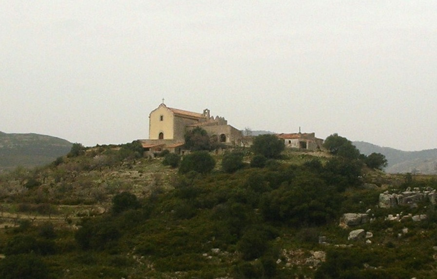 Ermita de Sant Pere i Sant Marc de la Barcella, an isolated church building near Xert